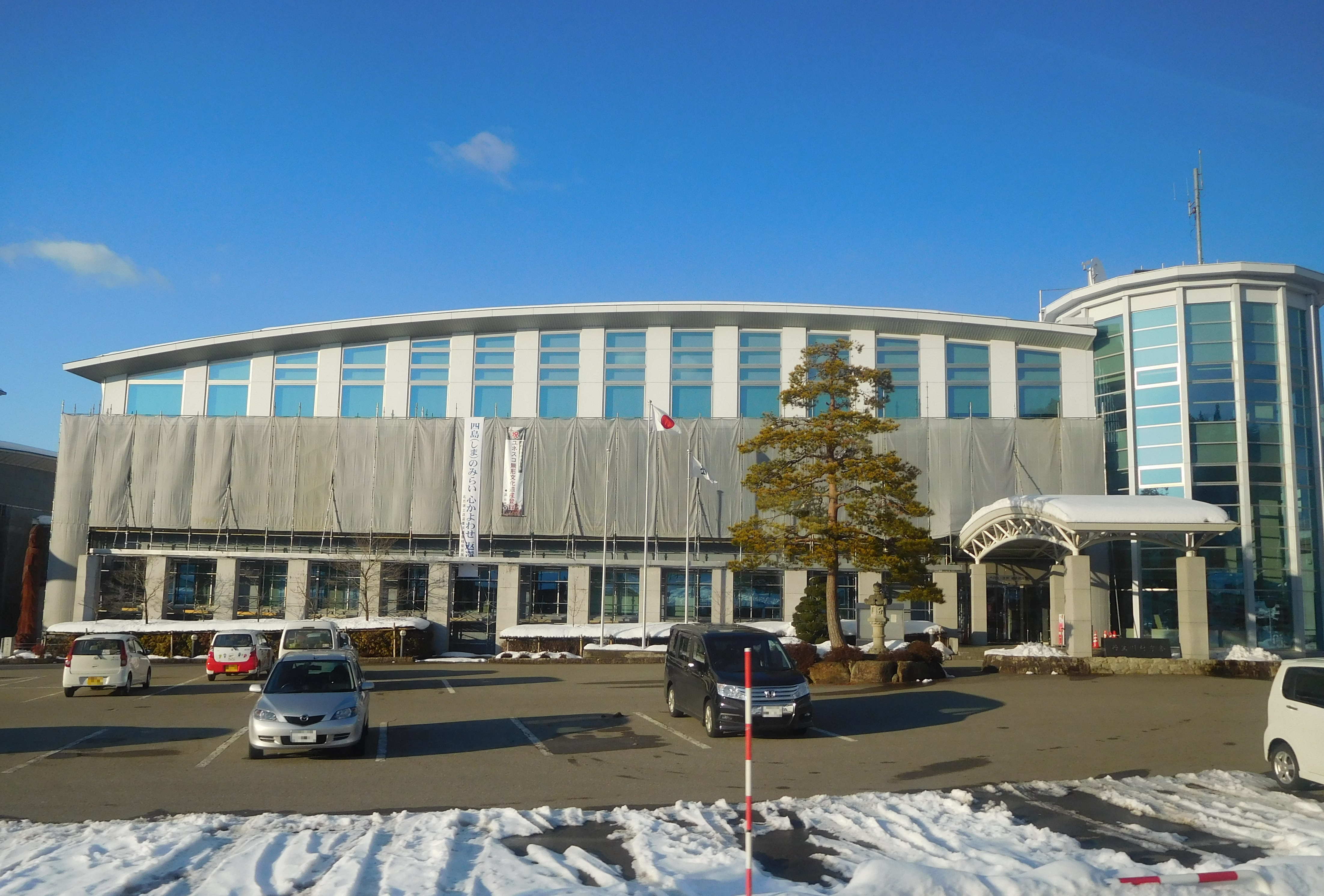 This is the Nyukawa Branch of Takaya City Hall and Takayama City Library in Takayama, Gifu, Japan.